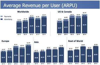 revenue